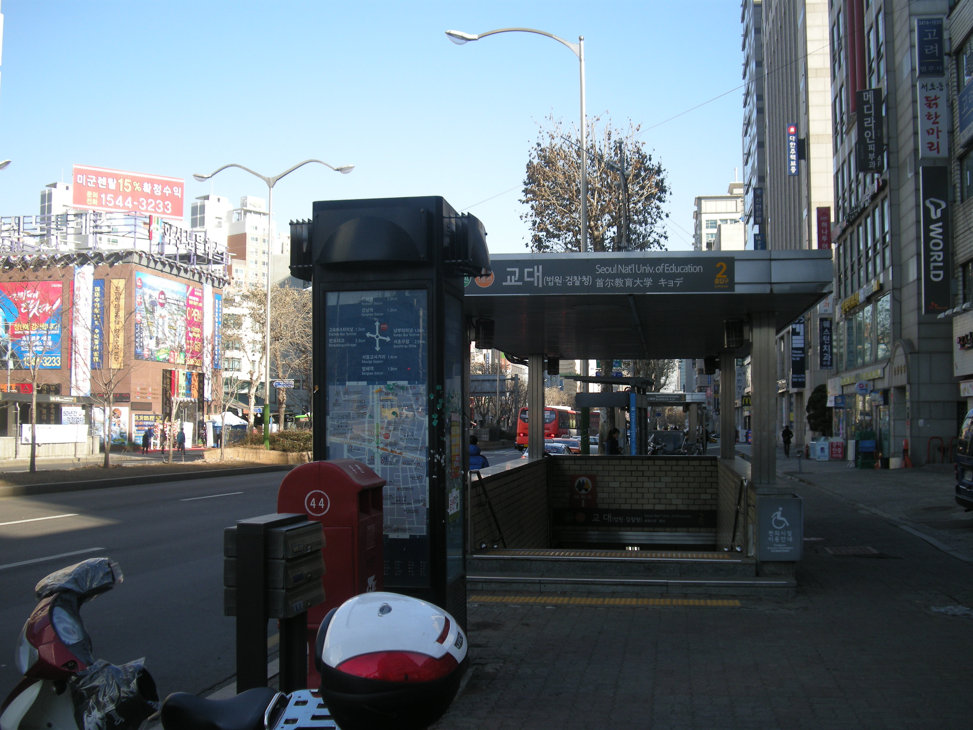 Exit 2, Seoul National University of Education, Seoul Metro Line 2